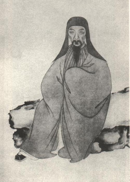 Wu Zhaoqian, scholar of the Qing Dynasty.